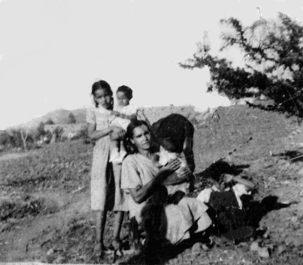 Family Méndez López